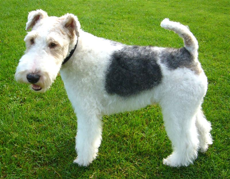 Basil the wire haired fox terrier